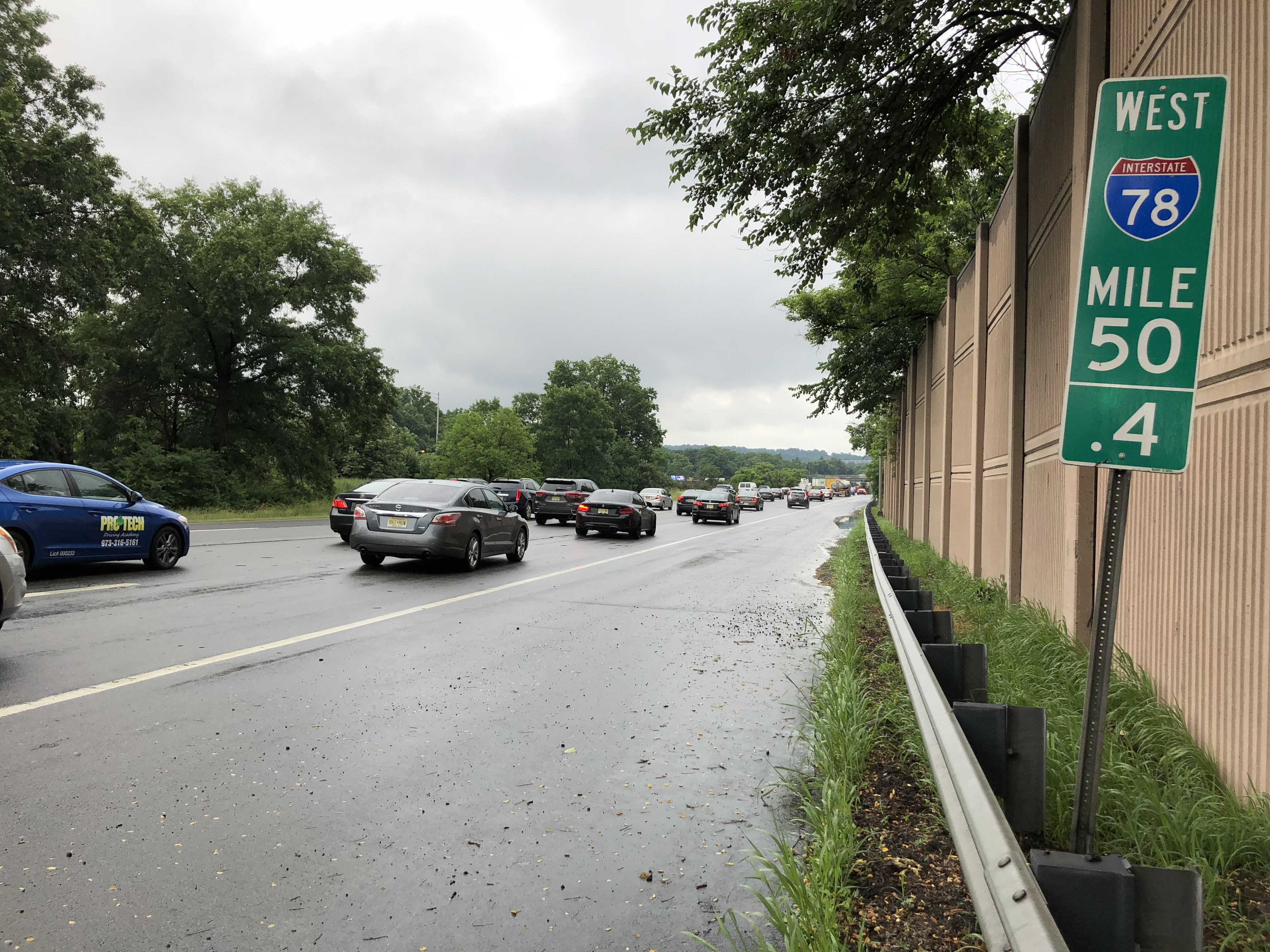 View west along Interstate 78 (Phillipsburg-Newark Expressway) between Exit 50A and Exit 48 in Millburn Township, Essex County, New Jersey